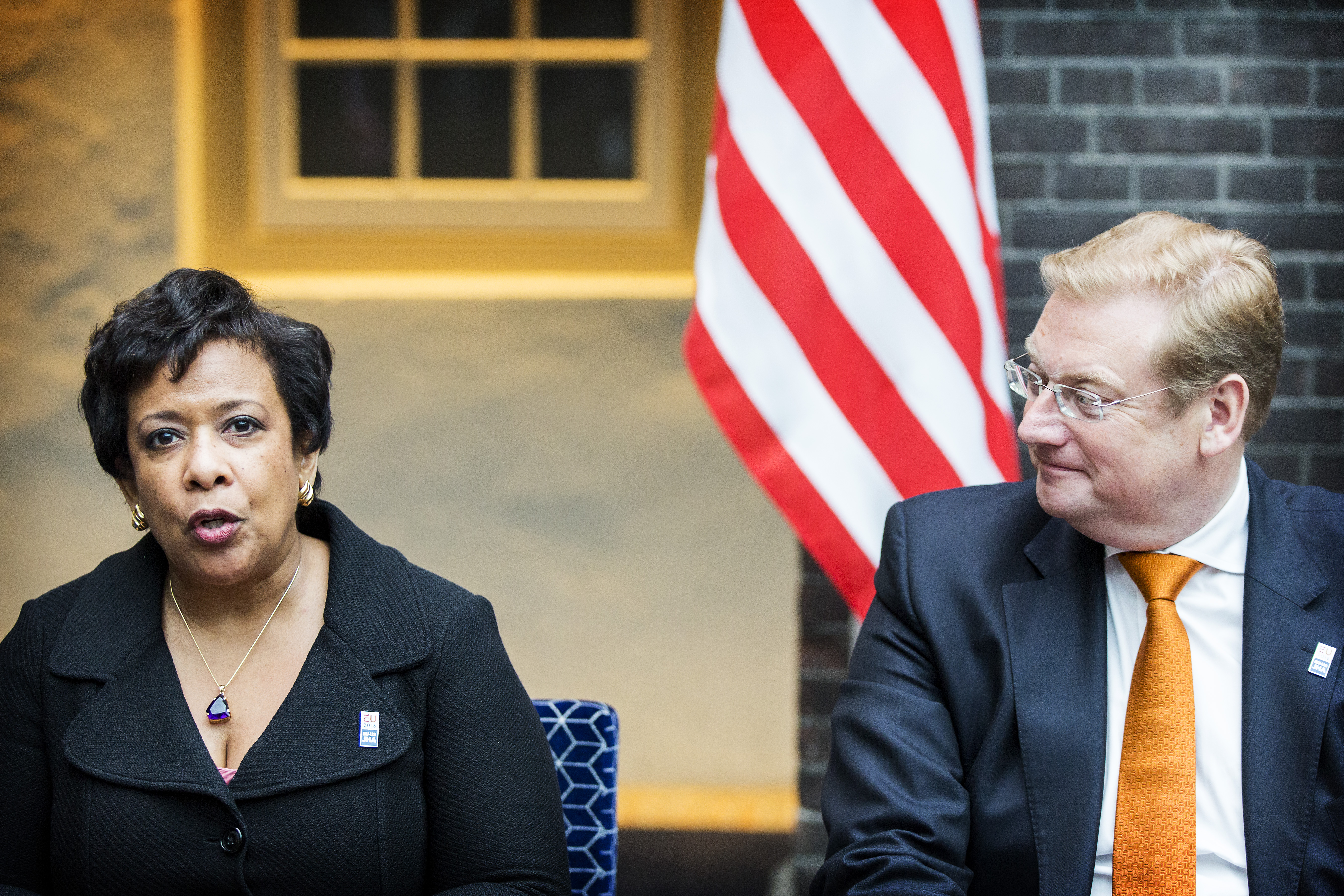 Amsterdam 1 June 2016 / Amsterdam 1 juni 2016. Informal EU-US Justice and Home Affairs ministerial meeting with Dutch minister of Justice Ard van der Steur. Foto: Rijksoverheid/Valerie Kuypers – Photograph: Dutch Government/Valerie Kuypers